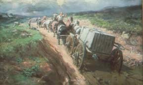 Hauling Marble, a painting by American artist Lloyd Branson (1854–1925)